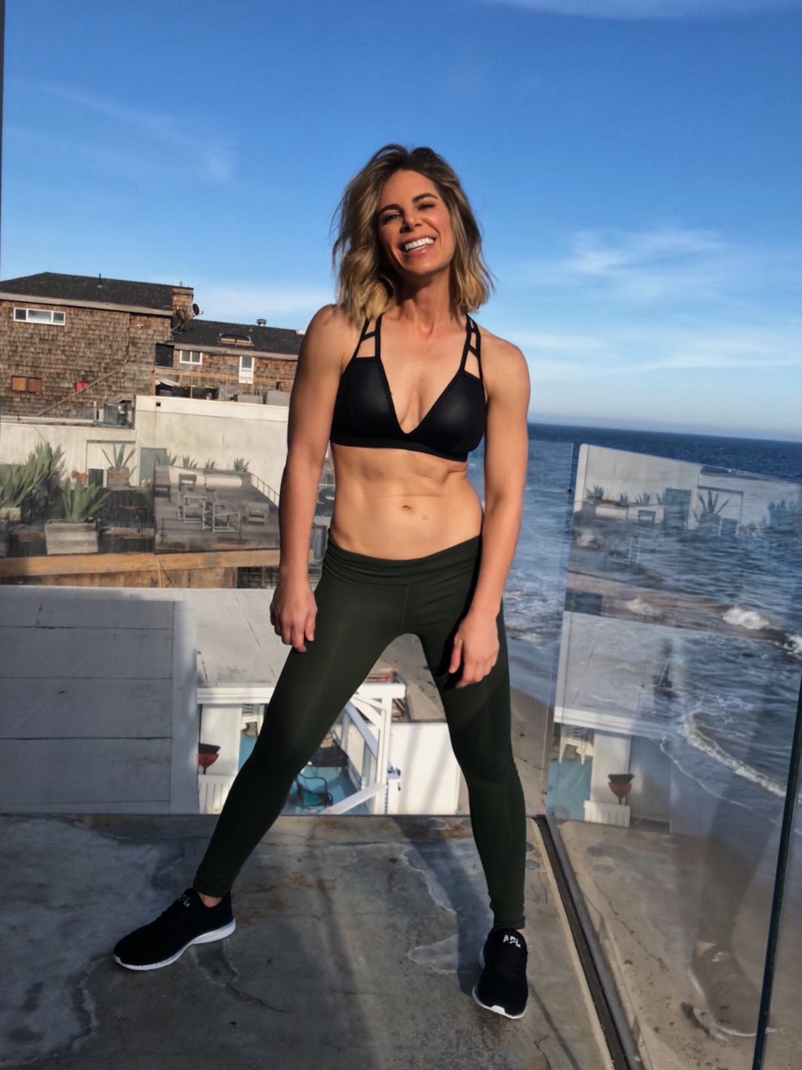 This photo of Jillian Michaels was taken on an iPhone in Malibu